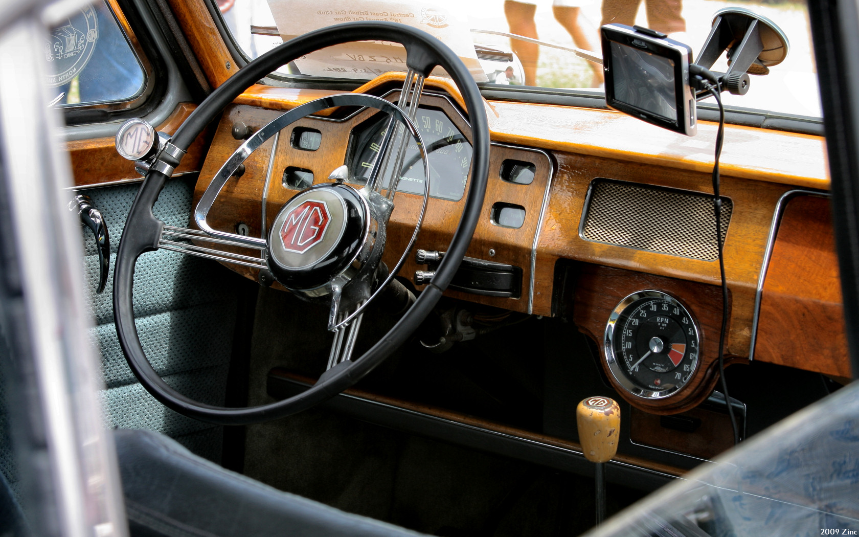 1959 MG Magnette ZB Varitone British Marques - Oxnard, CA, Aug 9, 2009